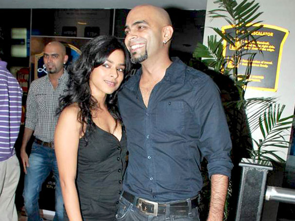 Sugandha Garg raghu ram